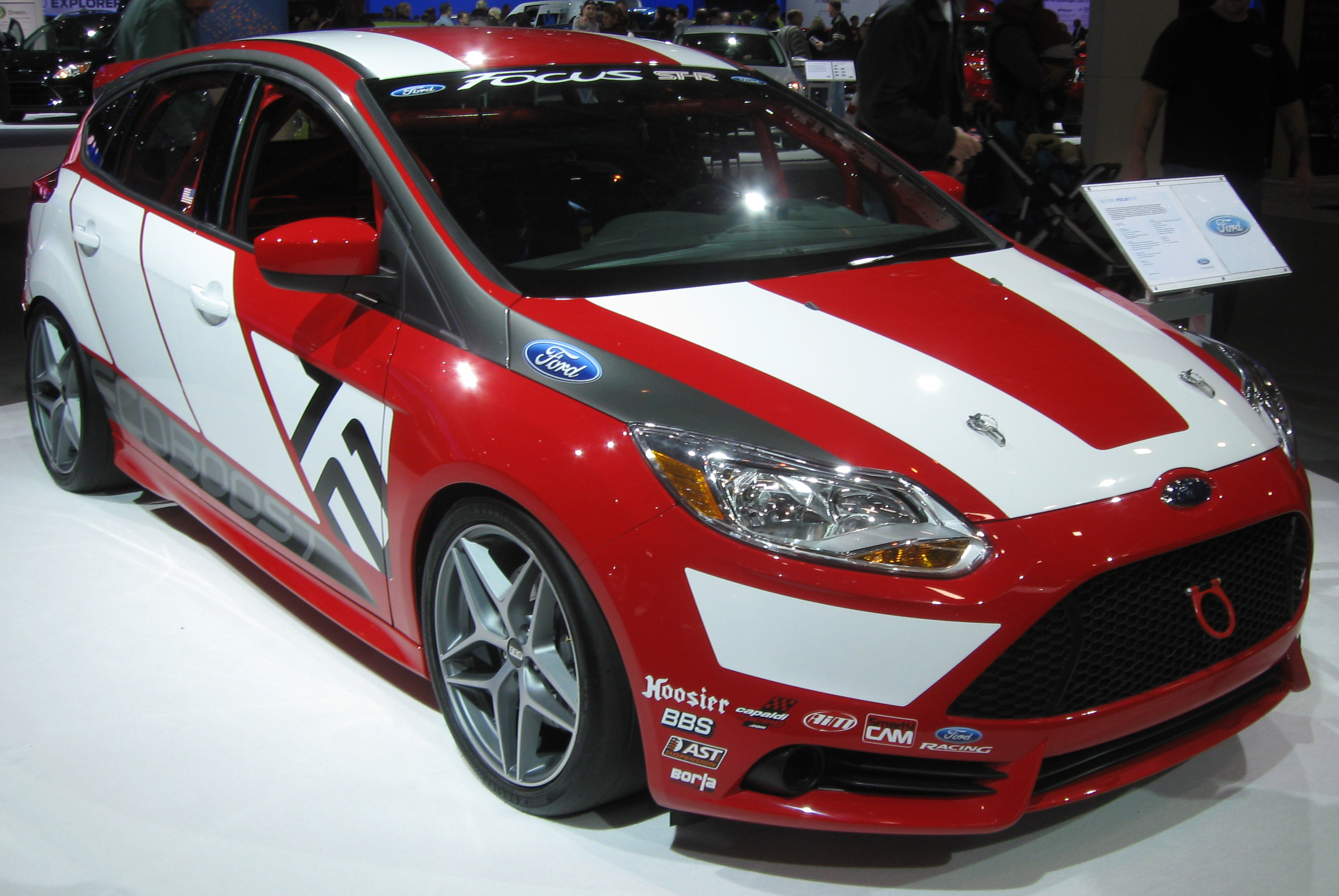 Ford Focus ST-R photographed at the 2011 Washington (D.C.) Auto Show.